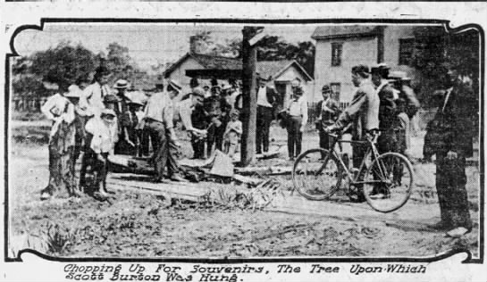 Chopping up the tree Burton was lynched on for souvenirs. Chicago Tribune. 17 Aug 1908.